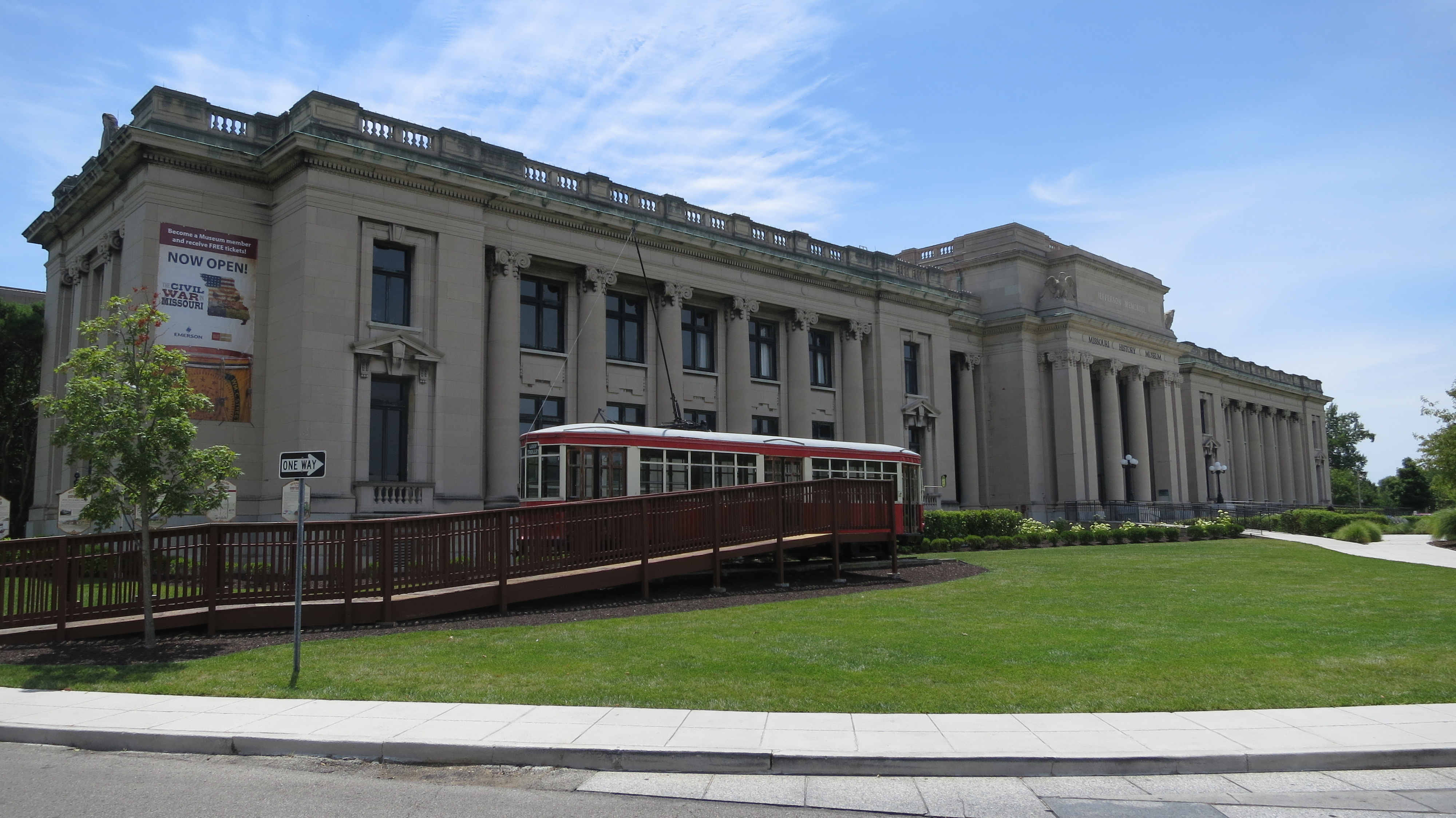 Lindell entrance to the Missouri History Museum, with an ex-Milan (Italy) streetcar in front, placed there after refurbishment in 2005 to promote the then-proposed Delmar Loop Trolley line.